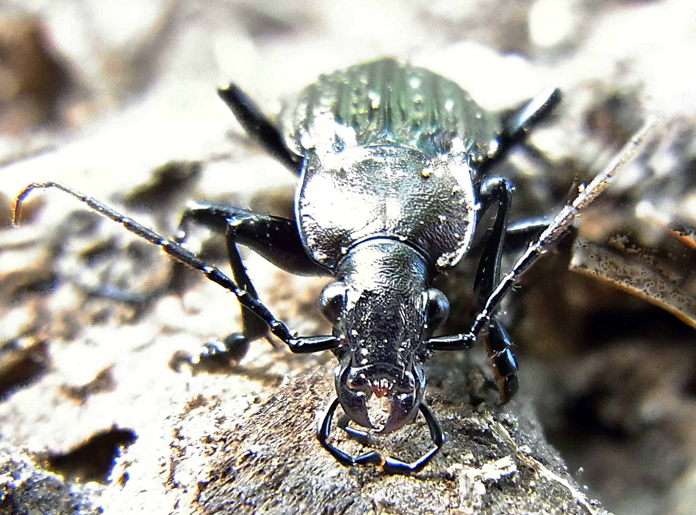 Carabus granulatus from Hungary, island in river Danubius north of town Budapest under dead trunks at 2011-09-09